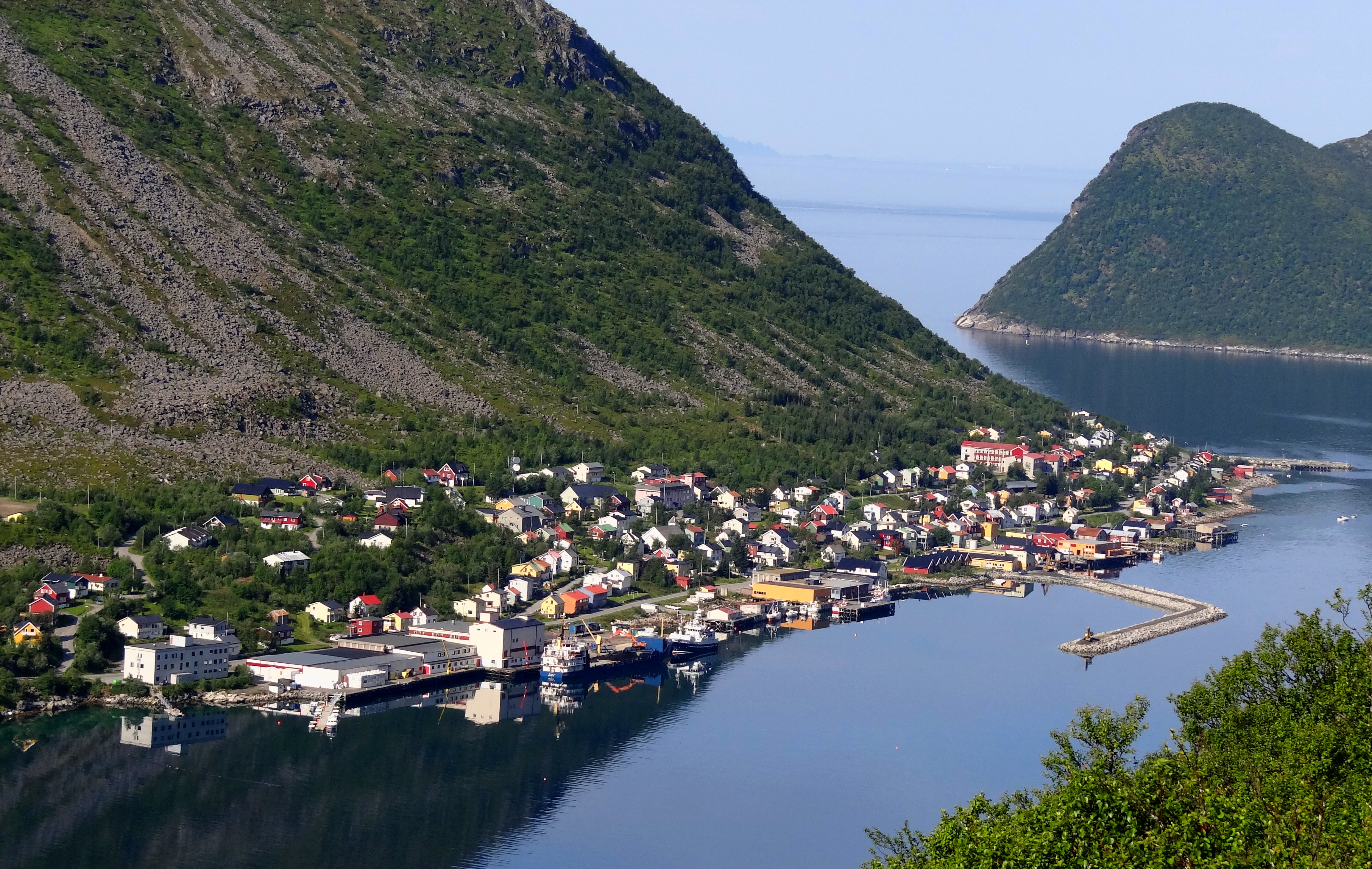 Gryllefjord seen from Ballesvikskaret, from east to west. A new molo is under construction, scheduled to be completed in 2011. Far out in the ocean there's a glimpse of Andøya and Andenes.